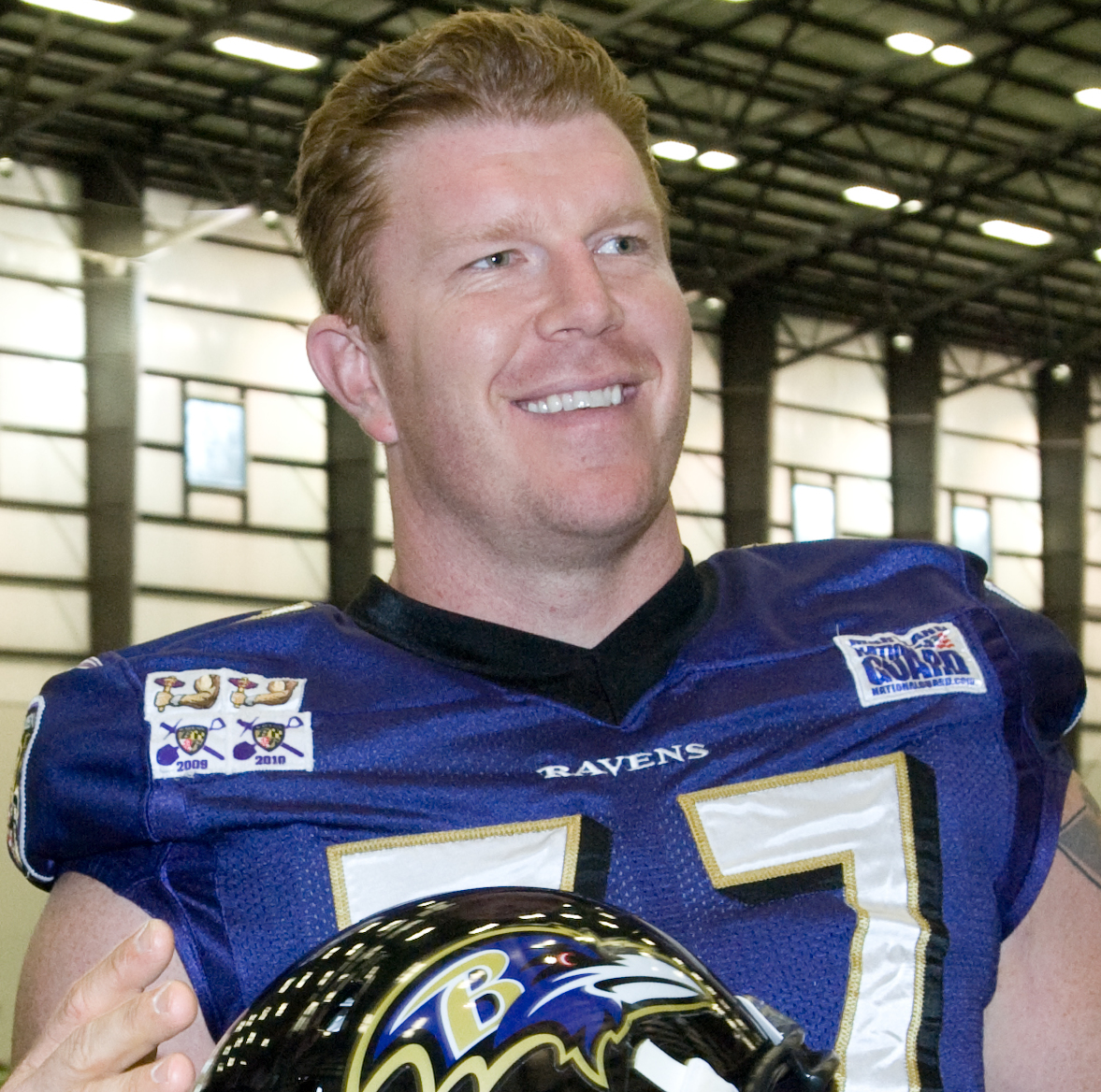 Ravens by Richard Lippenholz at Ravens Practice Balto Co